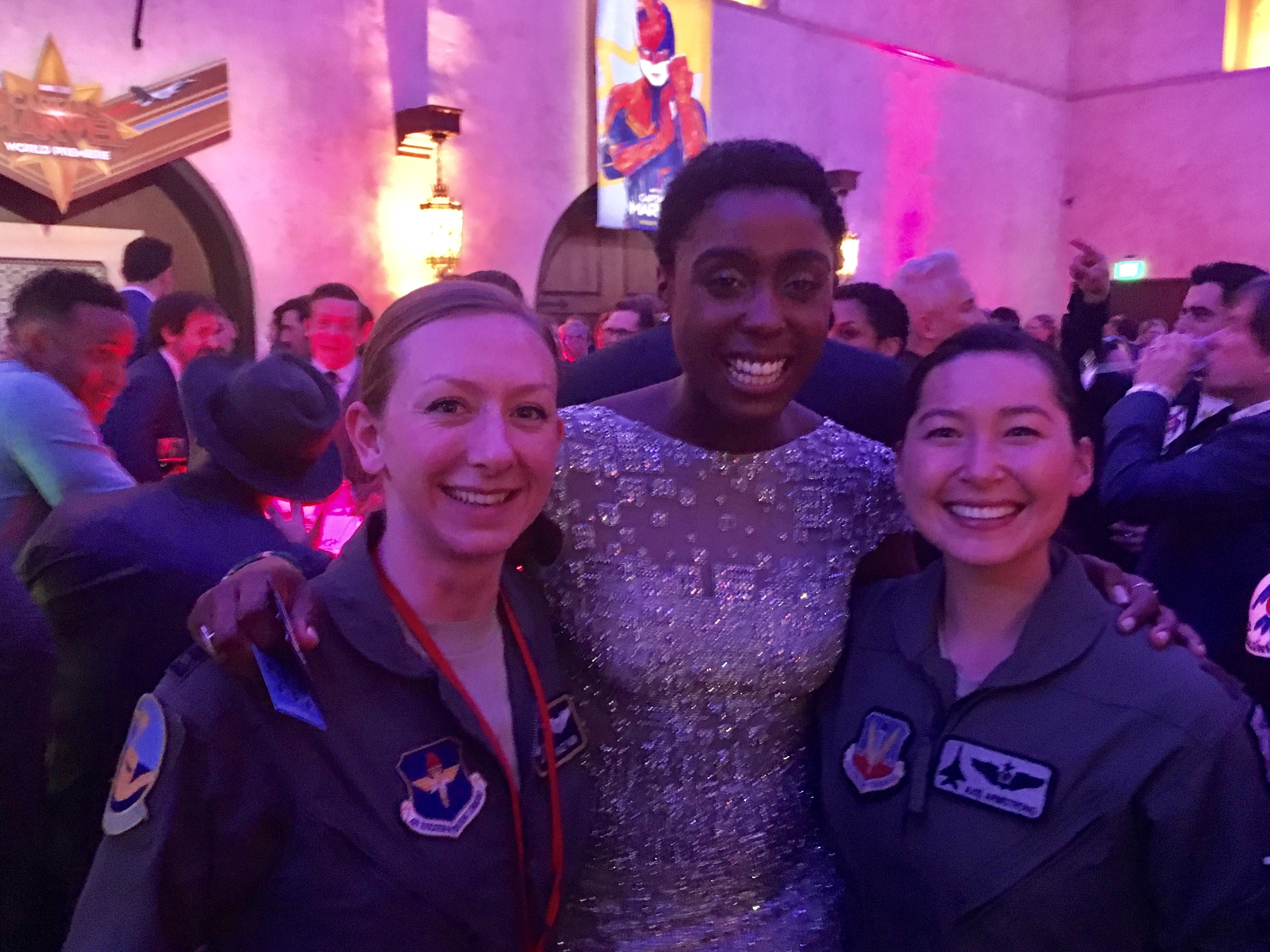 Capt. Danielle Park (left), 311th Fighter Squadron instructor pilot, stands next to Lashana Lynch (middle), who plays Maria Rambeau in Captain Marvel, while at the premiere of the film in Los Angeles, Calif, March 4, 2019. Park was invited to attend the premiere of Captain Marvel after giving the actress, Brie Larson, a ride in an F-16 Fighting Falcon while stationed at Nellis Air Force Base, Nev.